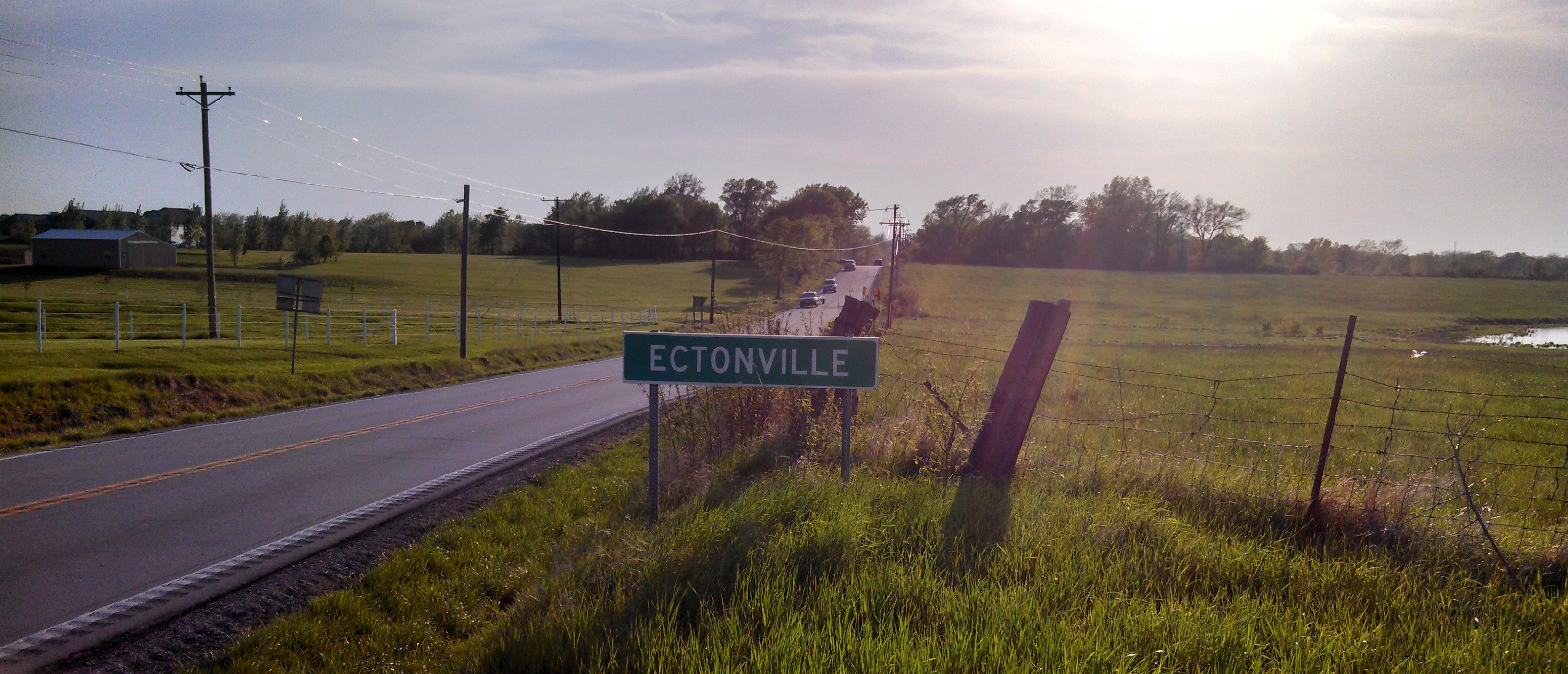 A shot of an entrance sign to Ectonville, Missouri.